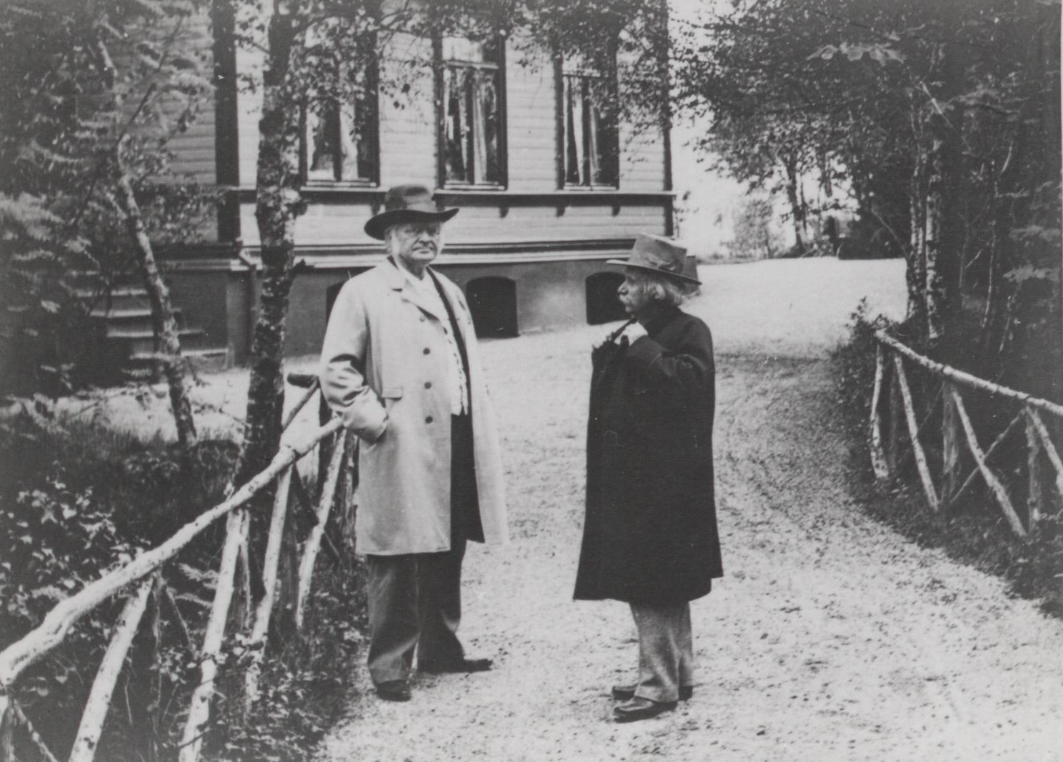 Artist: unknown Date/place: 15. June 1903, Troldhaugen/Bergen/Norway Subject: Bjørnstjerne Bjørnson and Edvard Grieg at Edvard's 60 year birthday Medium: photographic postitive/negative, B&W Notes: none Persistent URL: Original belongs to the Edvard Grieg Archives at Bergen Public Library